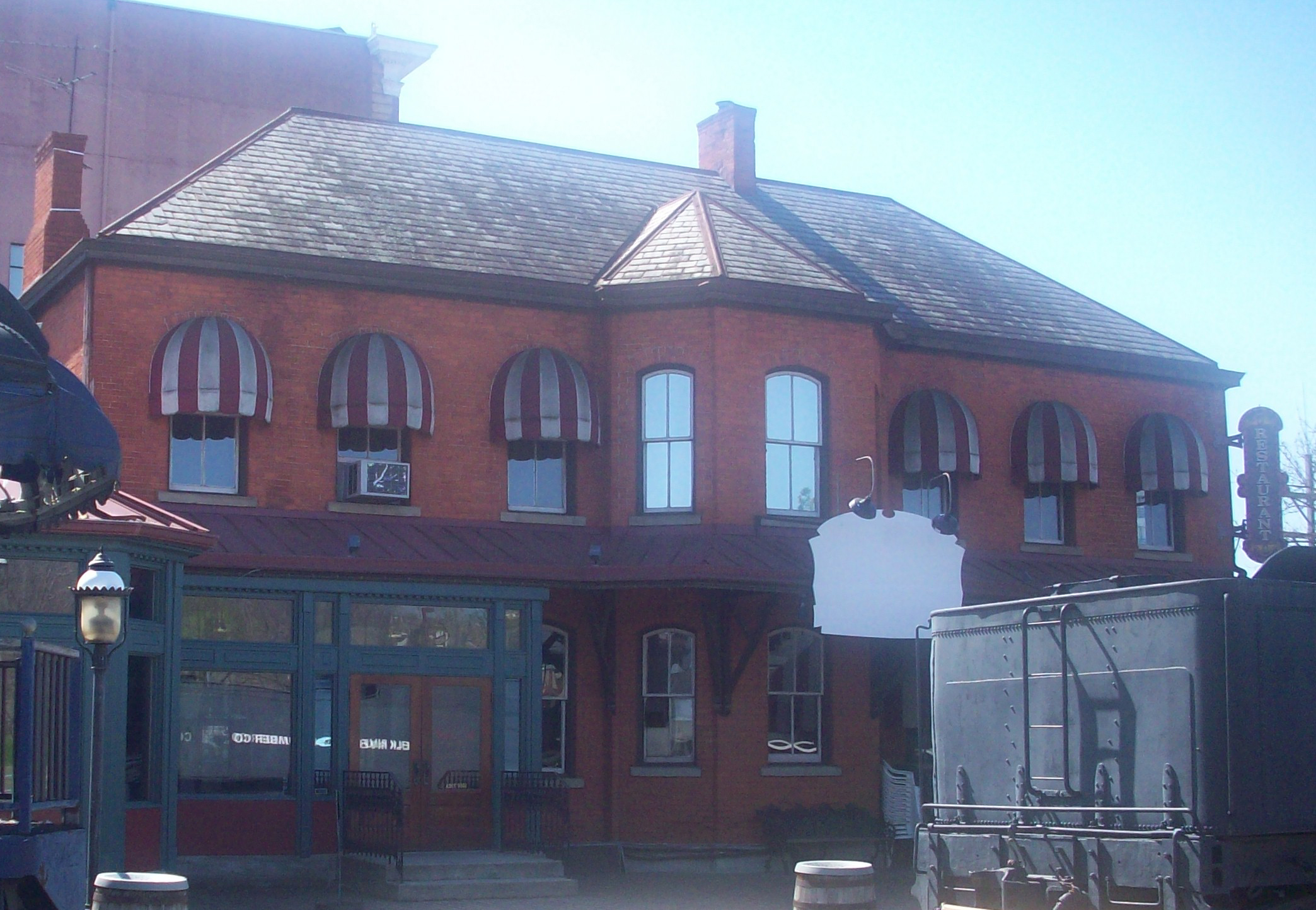 Photo of Heritage Station in Huntington, West Virginia, the former Baltimore & Ohio Railroad Depot. The photo was taken from the parking lot in front of the building.